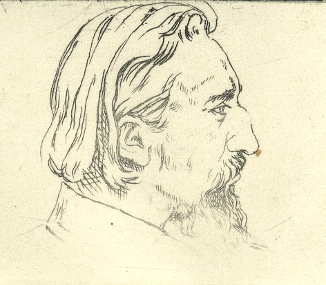 Henryk redlich -self portrait